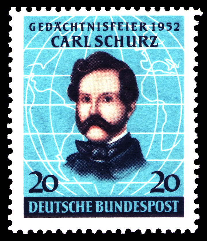 100th anniversary of the landing of Carl Schurz (1829-1906) in America Graphics by Bagel Ausgabepreis: 20 Pfennig First Day of Issue / Erstausgabetag: 17. September 1952 Michel-Katalog-Nr: 155